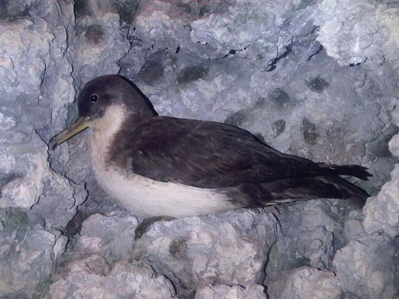 Taxidermied Yelkouan Shearwater Puffinus yelkouan at the National Museum of Natural History, Vilhena Palace, Republic of Malta.